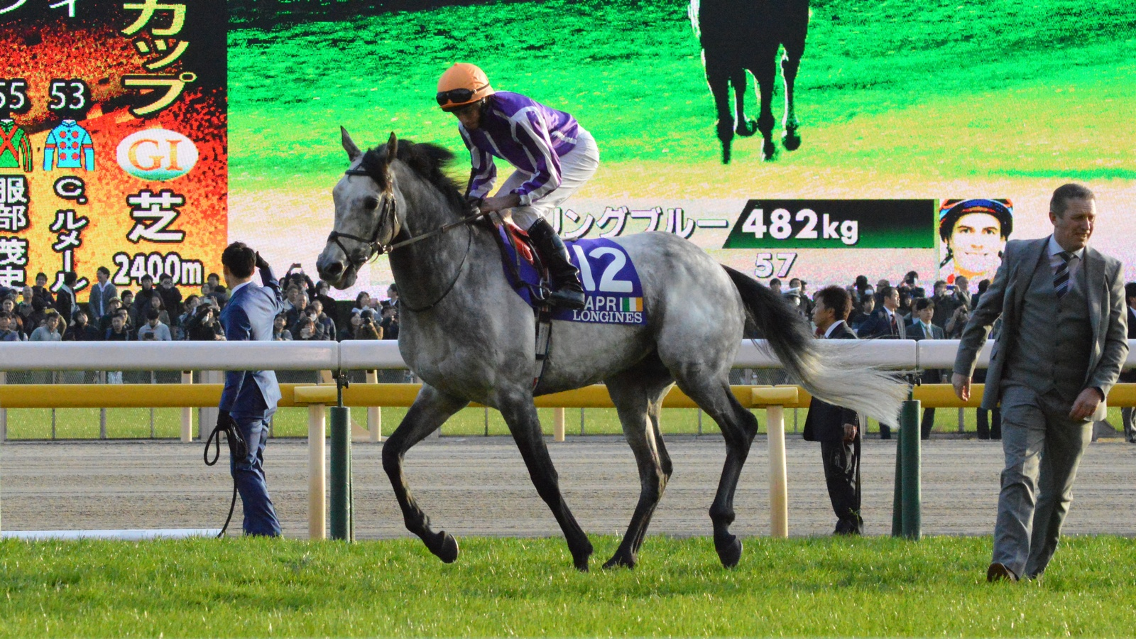 Irish race horse Capri at Tokyo racecourse. Tokyo (JPN) 25 Nov 2018Japan Cup in association with Longines (Grade 1) (3yo+) (Turf) 1m4f Firm RankHorse NameOddsAgeWgtJockeyTrainer1stAlmond Eye (JPN)2/5FF38-5Christophe-Patrice LemaireSakae Kunieda11thCapri (IRE)31/1C49-0Ryan MooreA P O'BrienOthers are omitted. (14 horses entered in a race.)